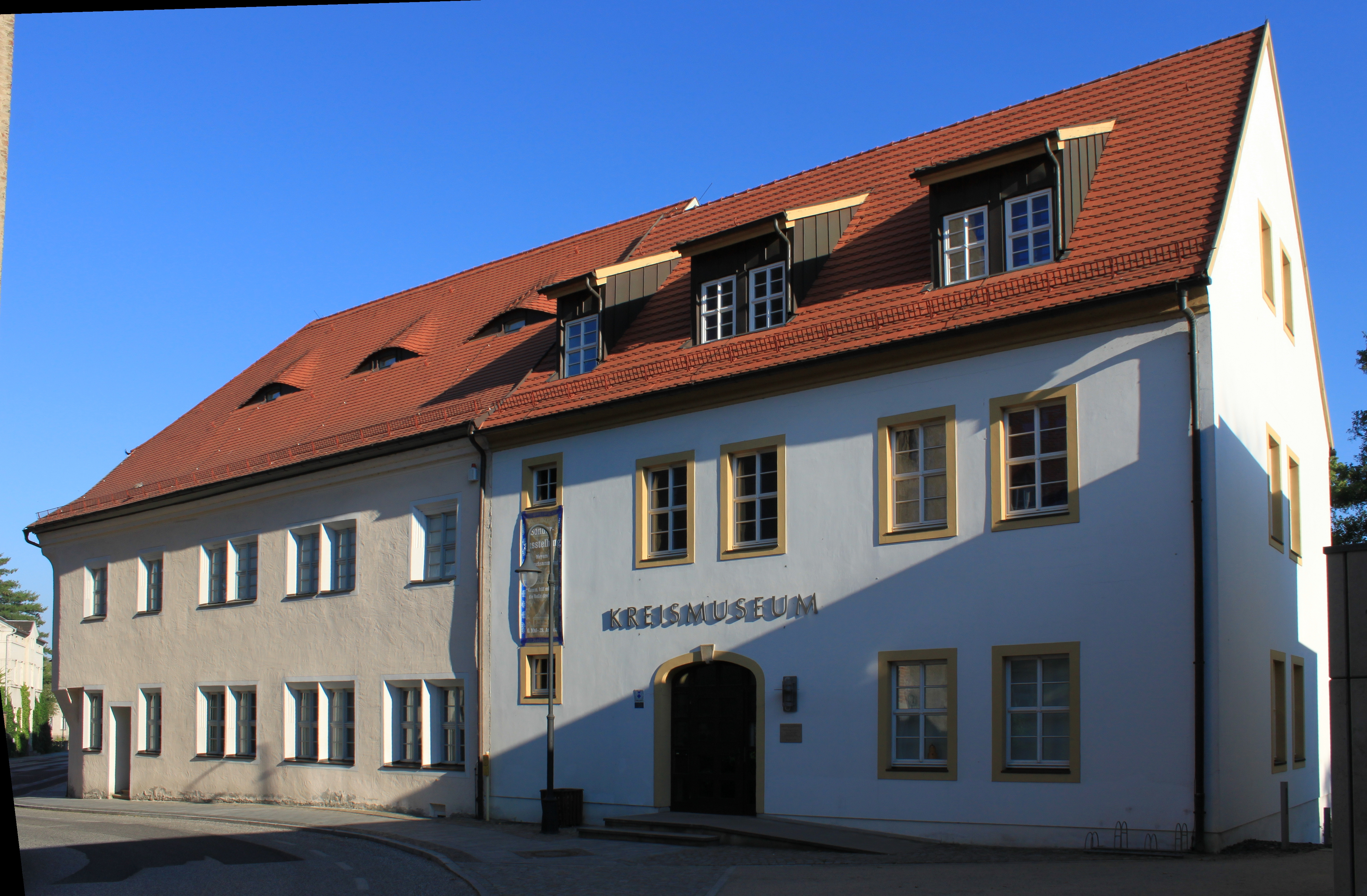 Museum in Bad Liebenwerda